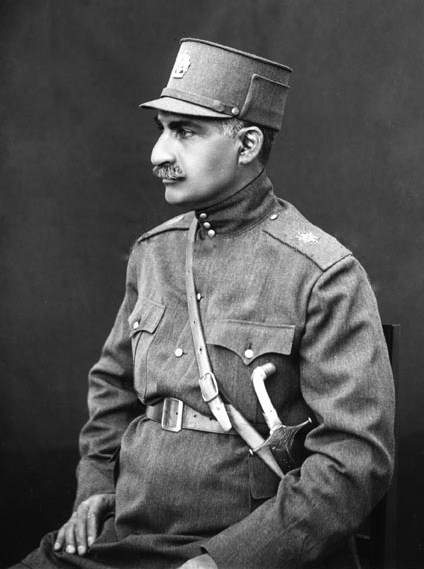 Antoin Sevruguin's historical Iran photographs.